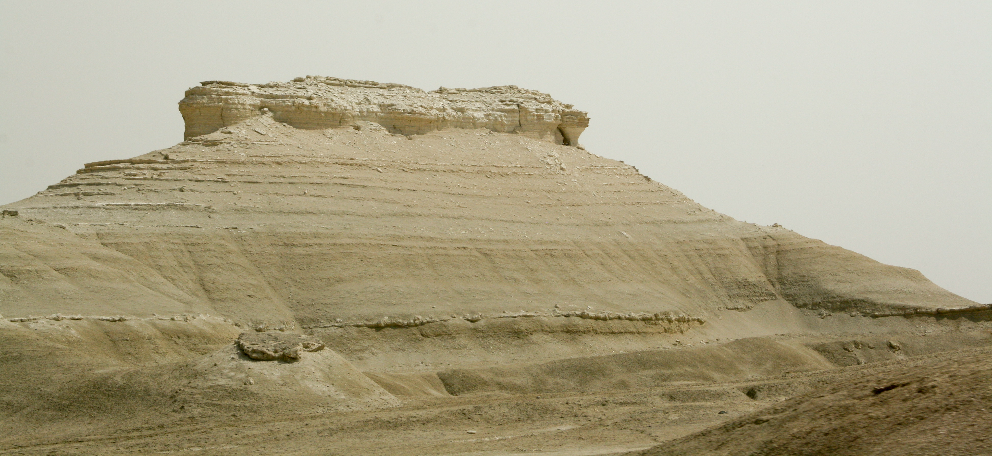 Landscape of Jericho, Palestine